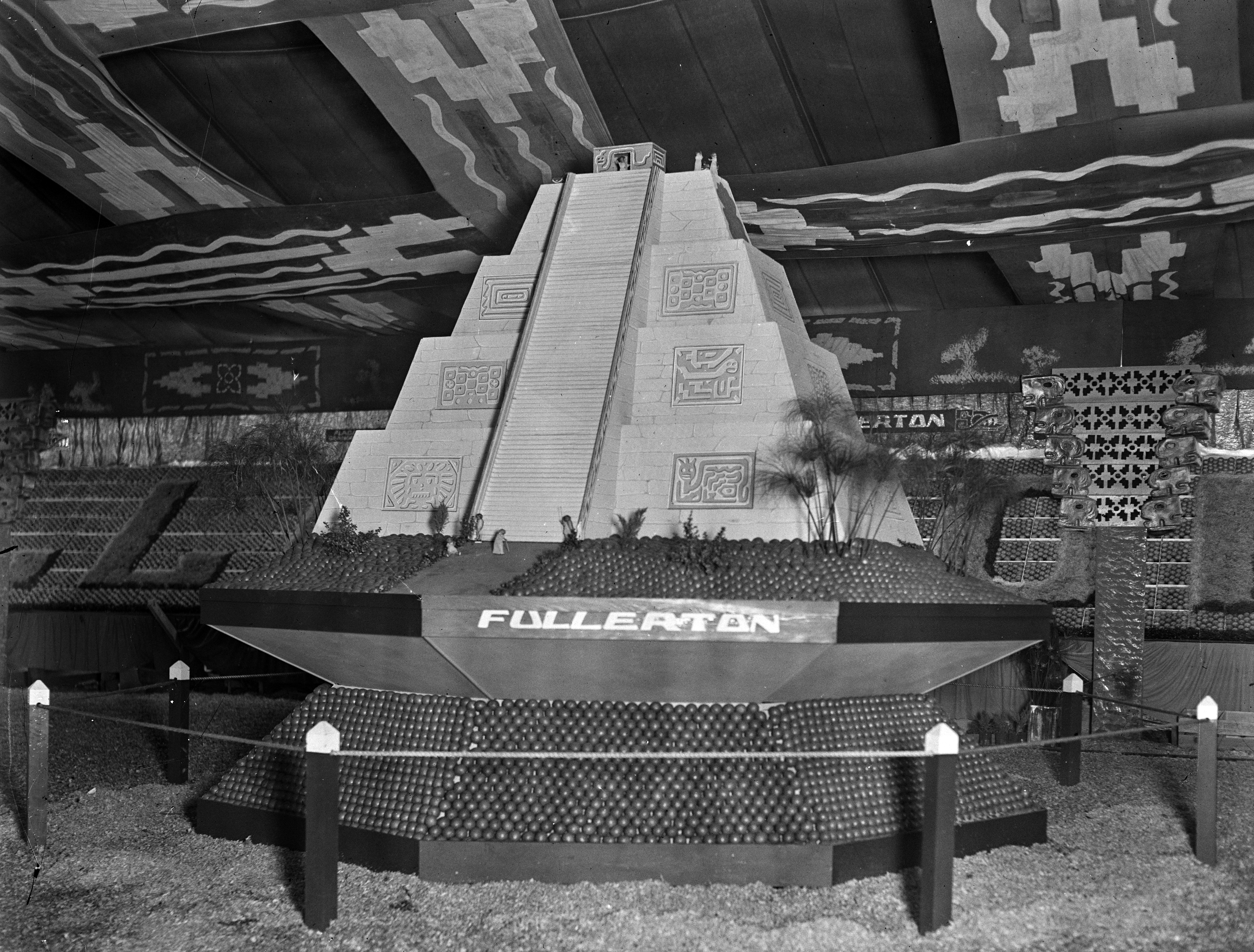 Title: City of Fullerton's Valencia Orange Show exhibit featuring an Aztec pyramid Published caption:Aztec Temple Background at Fullerton Exhibit. Publication:Los Angeles Times Publication date:June 5, 1931 Source:Los Angeles Times photographic archive, UCLA Library Licensing Note about non-renewal of copyright: [1]